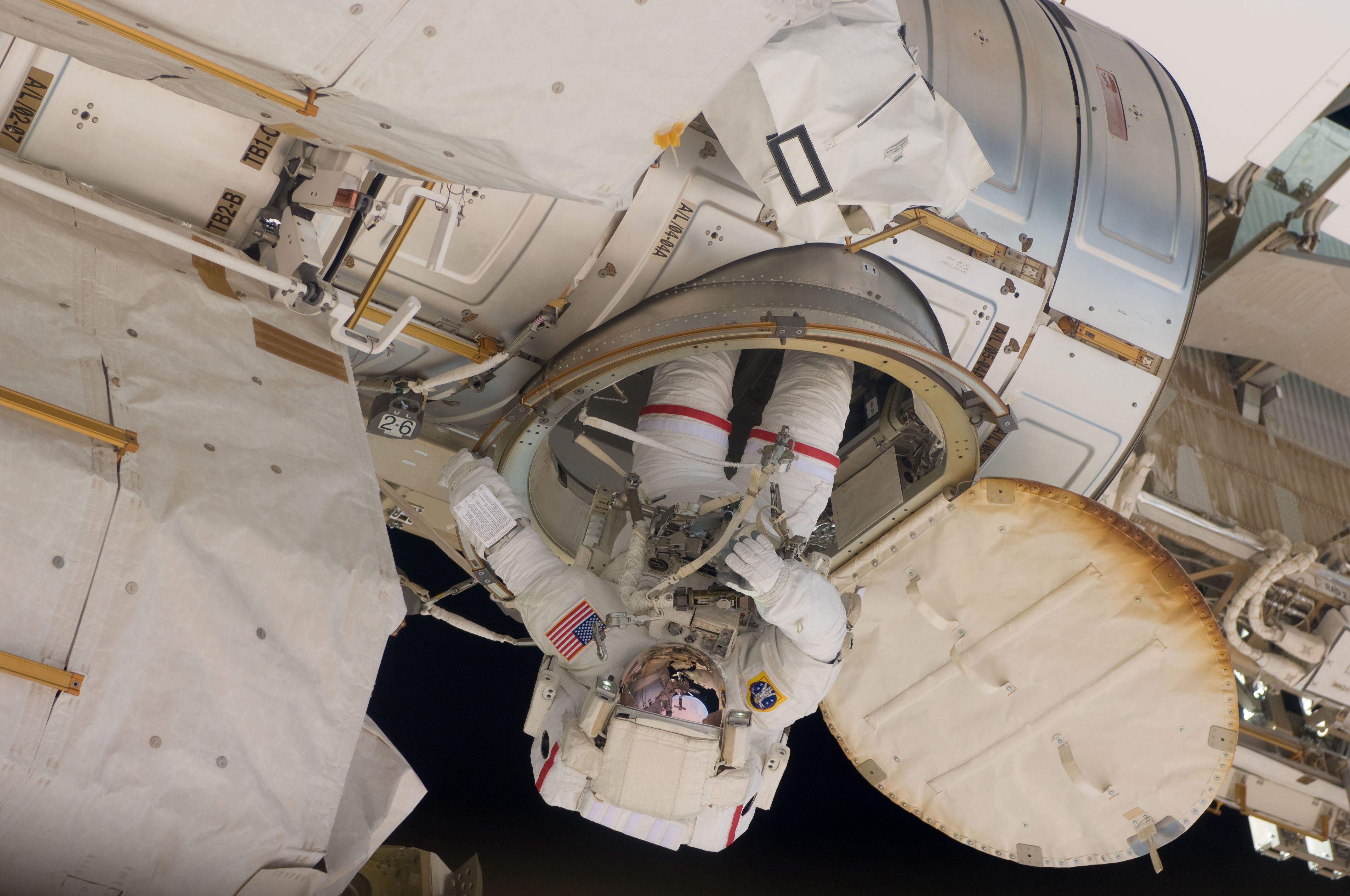 NASA astronaut Andrew Feustel, STS-134 mission specialist, is pictured during the mission's first session of extravehicular activity (EVA) as construction and maintenance continue on the International Space Station. During the six-hour, 19-minute spacewalk, Feustel and astronaut Greg Chamitoff (out of fame) retrieved long-duration materials exposure experiments and installed another, installed a light on one of the station's rail line handcarts, made preparations for adding ammonia to a cooling loop and installed an antenna for the External Wireless Communication system.